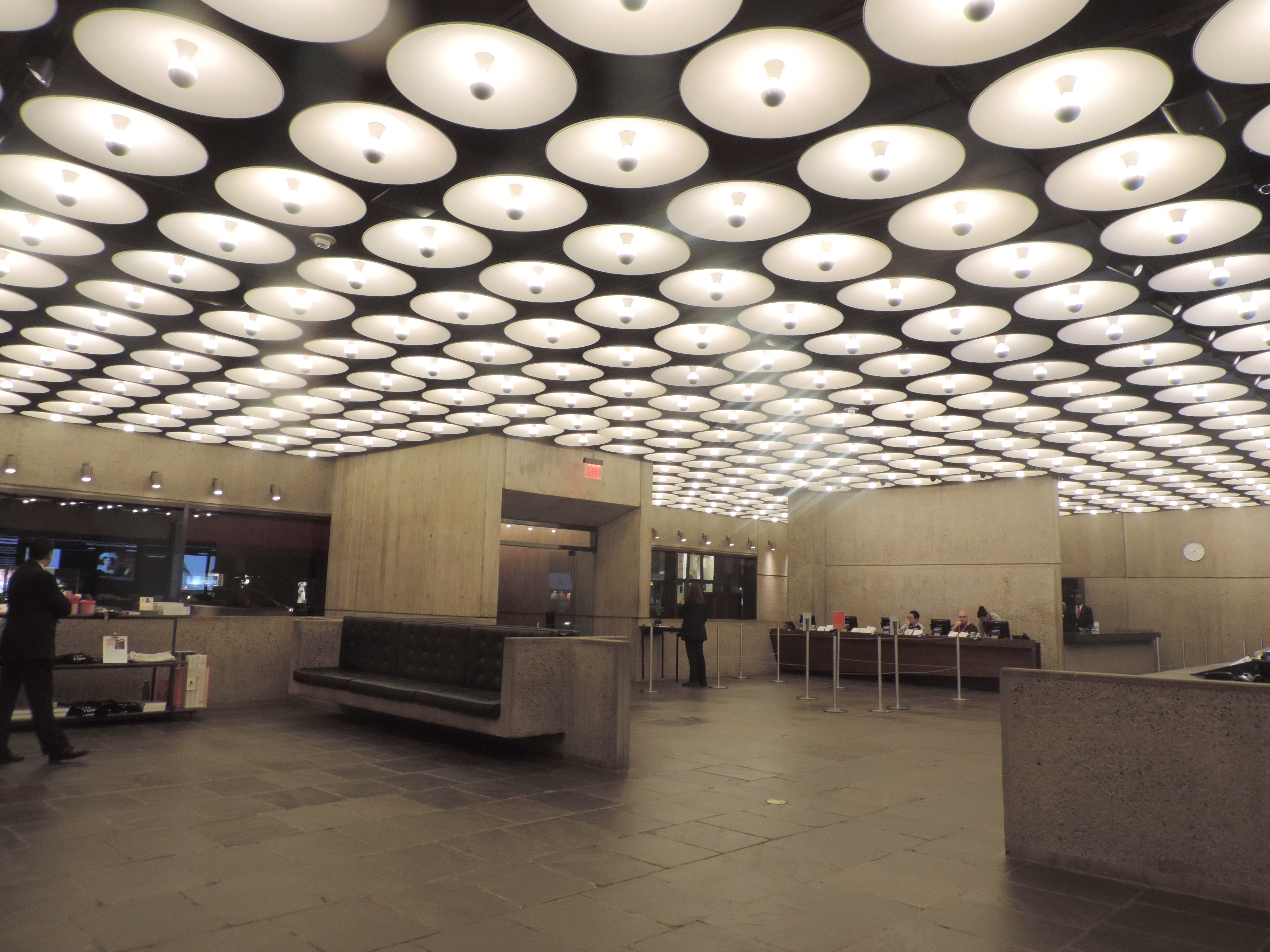 Looking north in Breuer lobby at lights, desks and exit